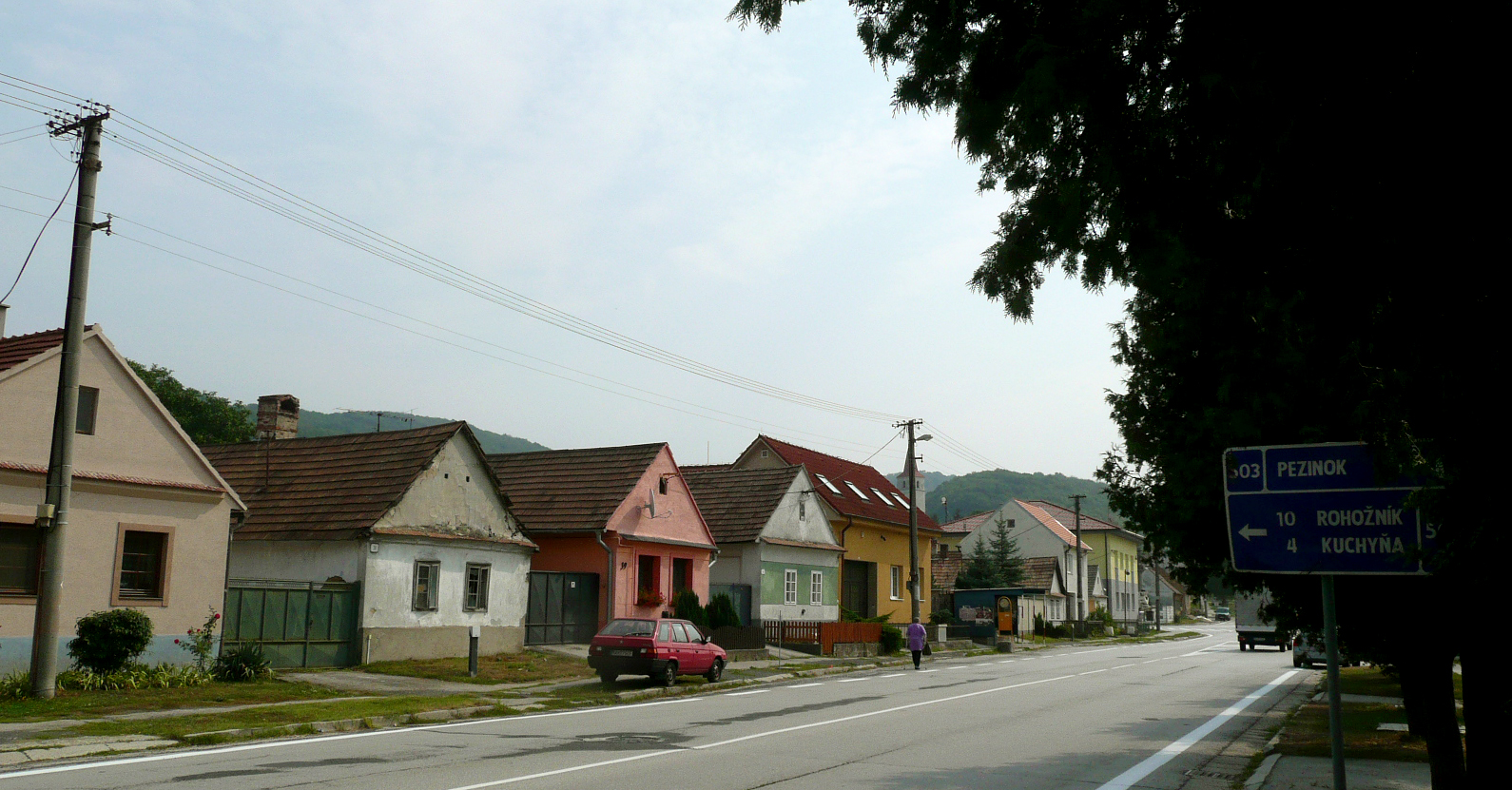 Main street with typical houses in Pernek, Western Slovakia